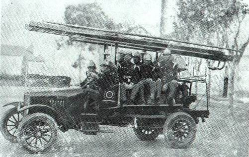 AHBVPA-MeioHistorico4